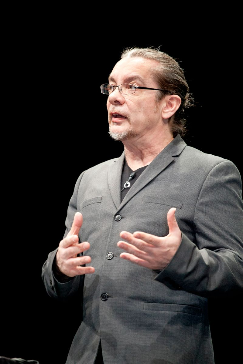 Photograph by Amber Gregory for FontShop